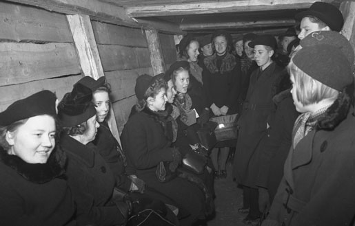 Inhabitants of Helsinki in a bomb shelter in the Winter War.